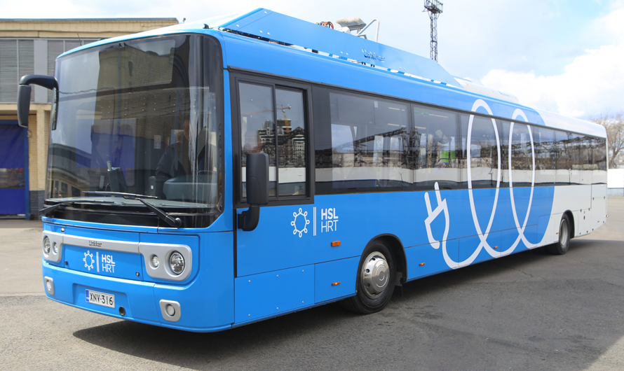 Electrobus Linkker (Finland) on test in Moscow